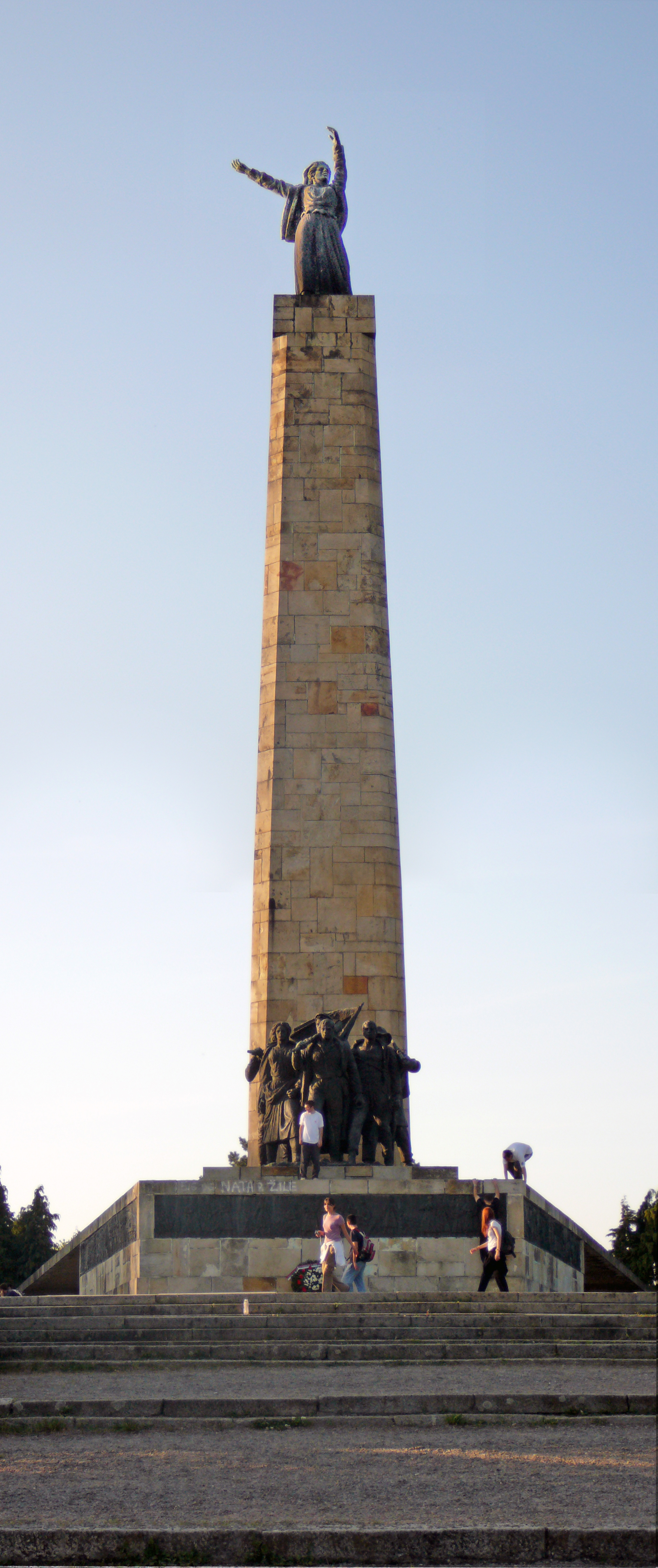 Monument Sloboda (meaning: Freedom) on Iriški venac (top of Fruška Gora). The monument was made in 1951. in the memory of fighters of Yugoslav Front in World War II. The author of the monument is sculptor Sreten Stojanović